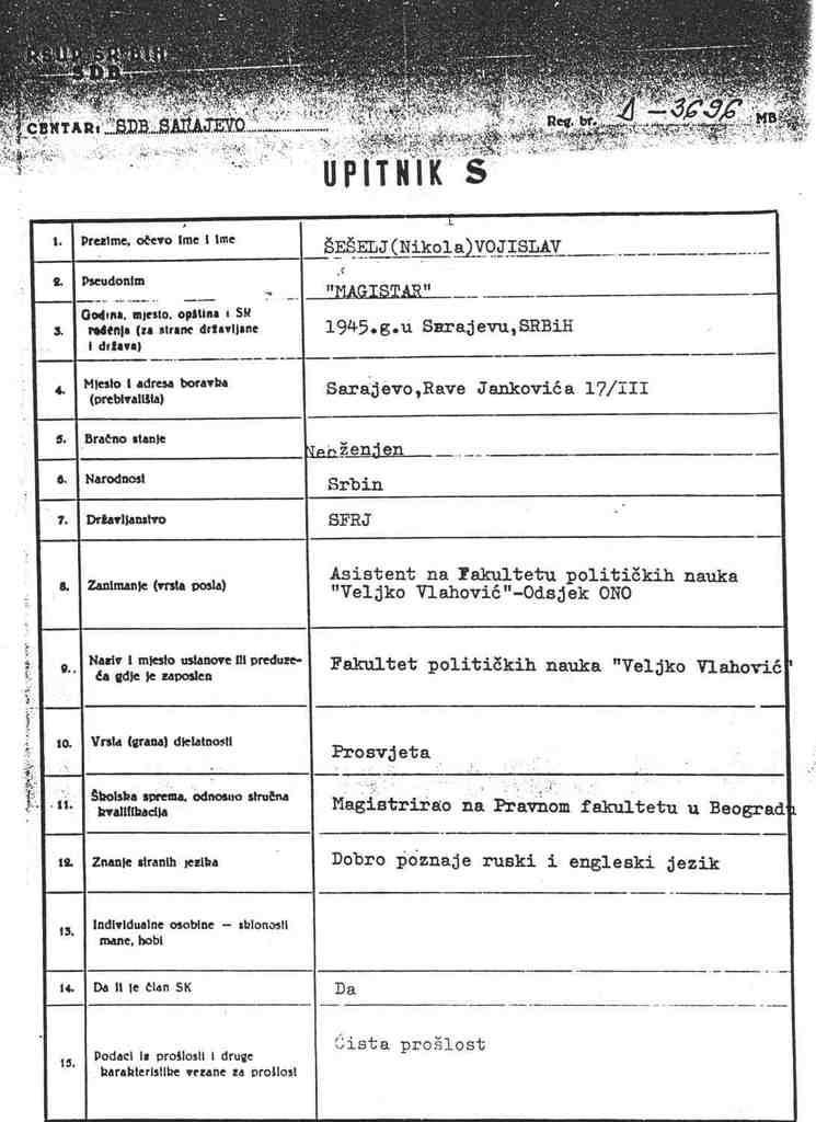 UDBA file about Vojislav Šešelj